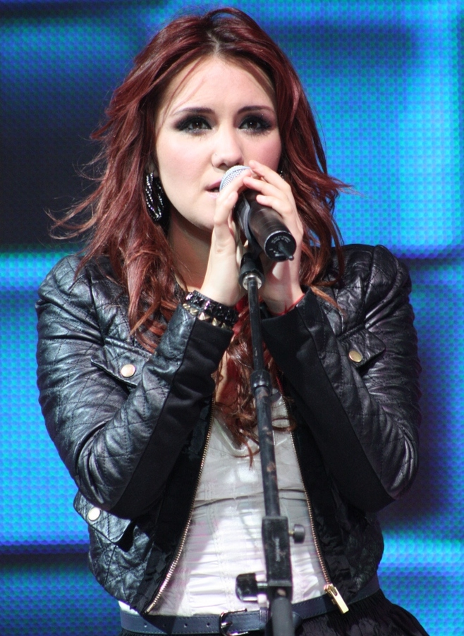 Mexican actress and musician Dulce Maria at Teleton 2011 in Mexico.